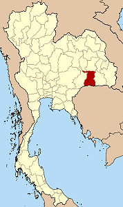 Map of Thailand highlighting Surin province